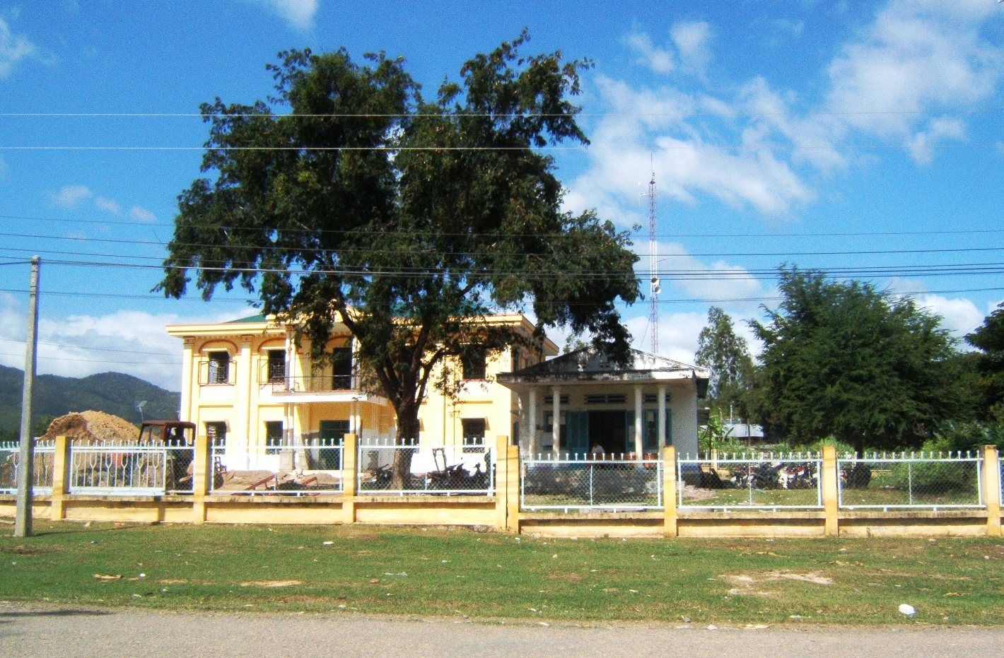 House of the People's Committee of Ma Noi Commune, Ninh Thuan province, Vietnam, 2006.